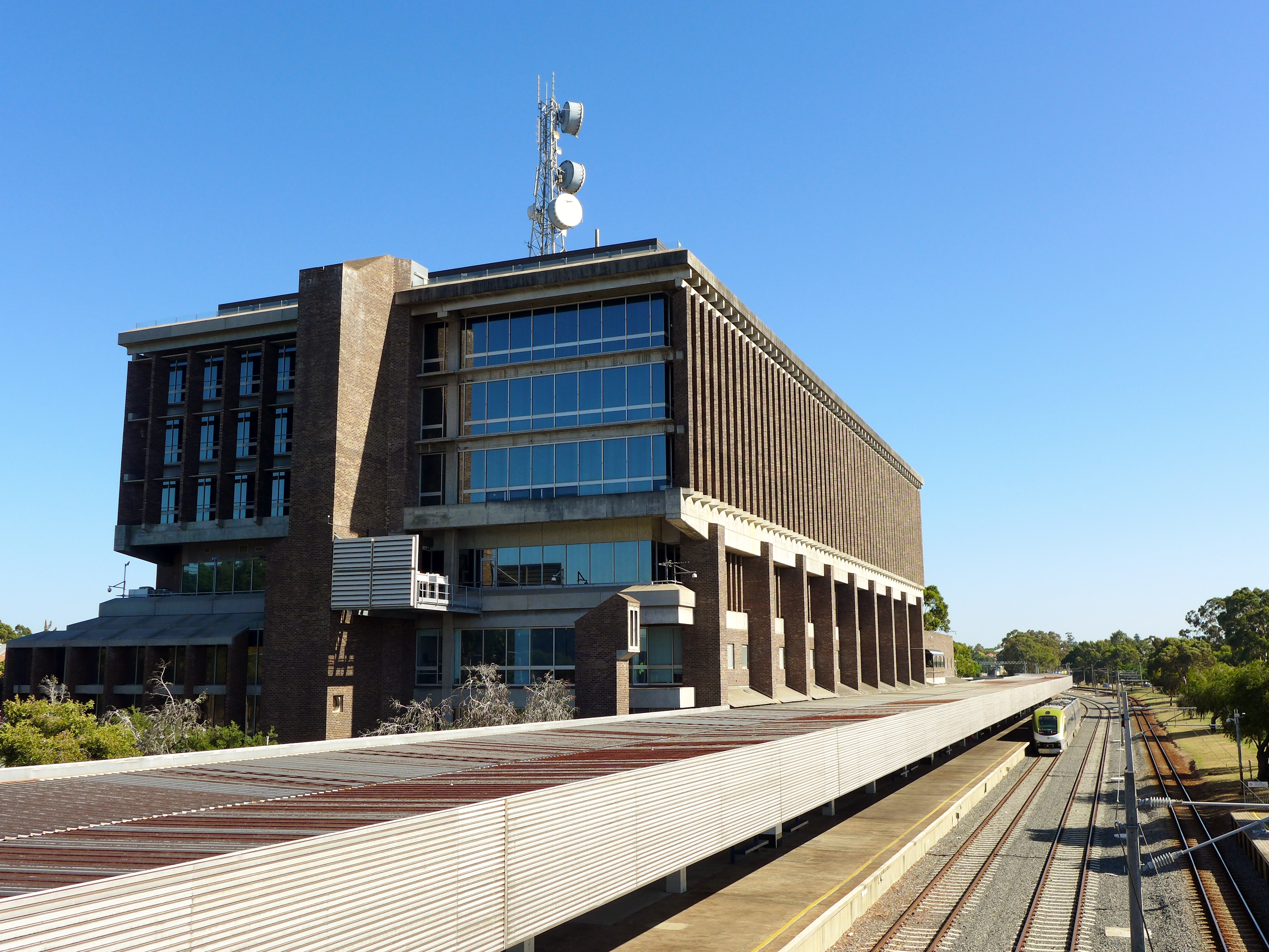 The MerredinLink, a Transwa train service from East Perth to Merredin, Western Australia, and return, awaits departure from East Perth. Since December 2014, this service has operated weekly.